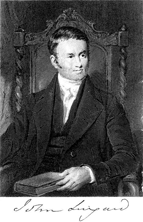 A picture of John Lingard, the English Historian, with his signature, from the 1853 American Edition of the book The History of England, From the First Invasion by the Romans to the Accession of Henry VIII